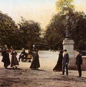 An early evening stroll in the 19th century at the entrance of the Alameda Gardens, Gibraltar